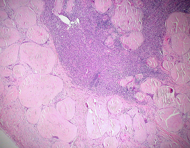 Amyloidosis, node, H&E Amyloid accounted for about 90% of the node's volume, but the residual lymphoid tissue looked benign, with small but well formed germinal centers.